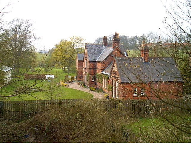 Little Weighton Railway Station, Little Weighton, East Riding of Yorkshire, England.The Little Weighton Railway Station was converted into a residential property some years ago. Originally it was one of the stations on the Hull and Barnsley Railway.